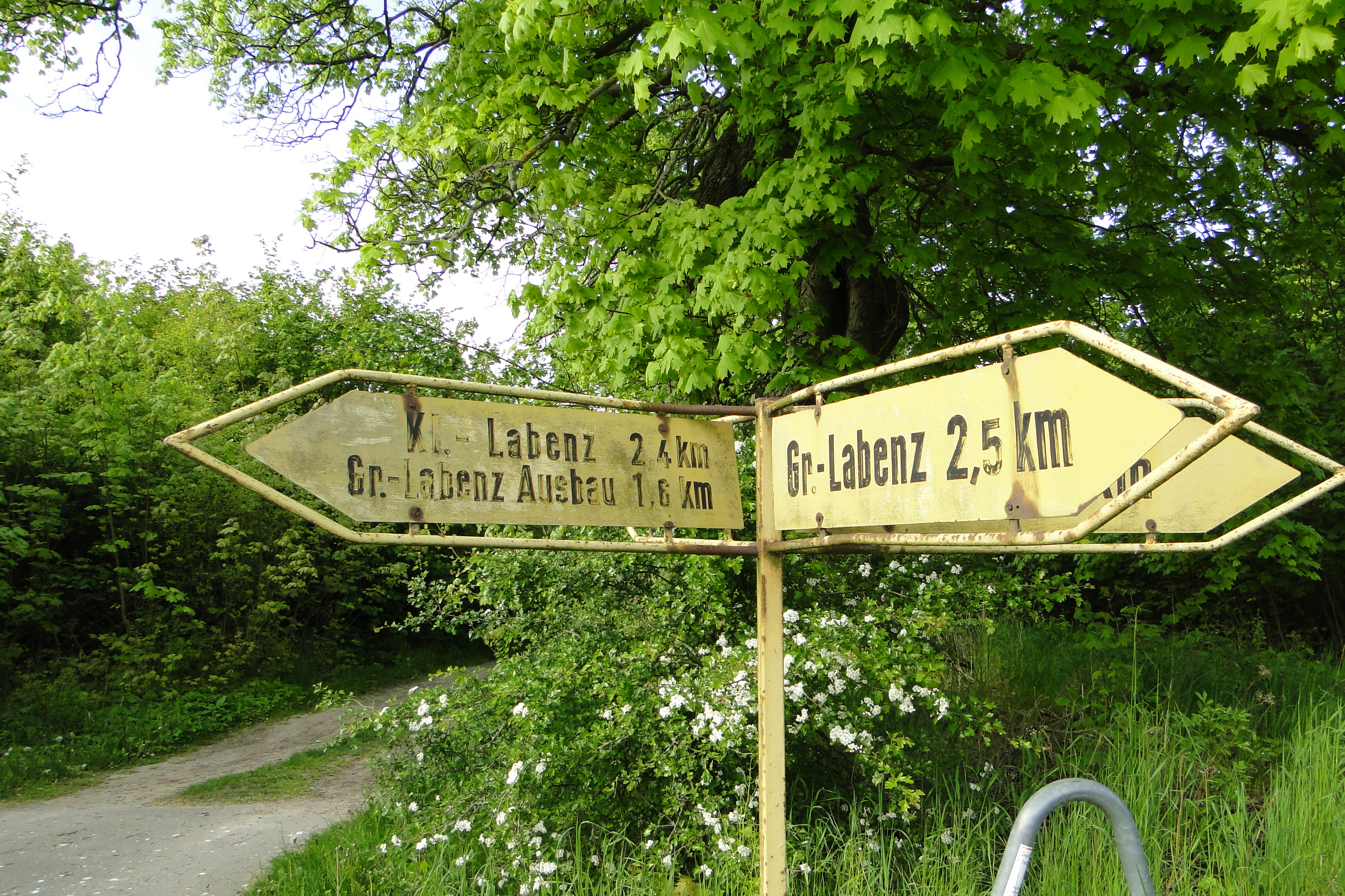 Old fingerpost near Groß Labenz, district Nordwestmecklenburg, Mecklenburg-Vorpommern, Germany